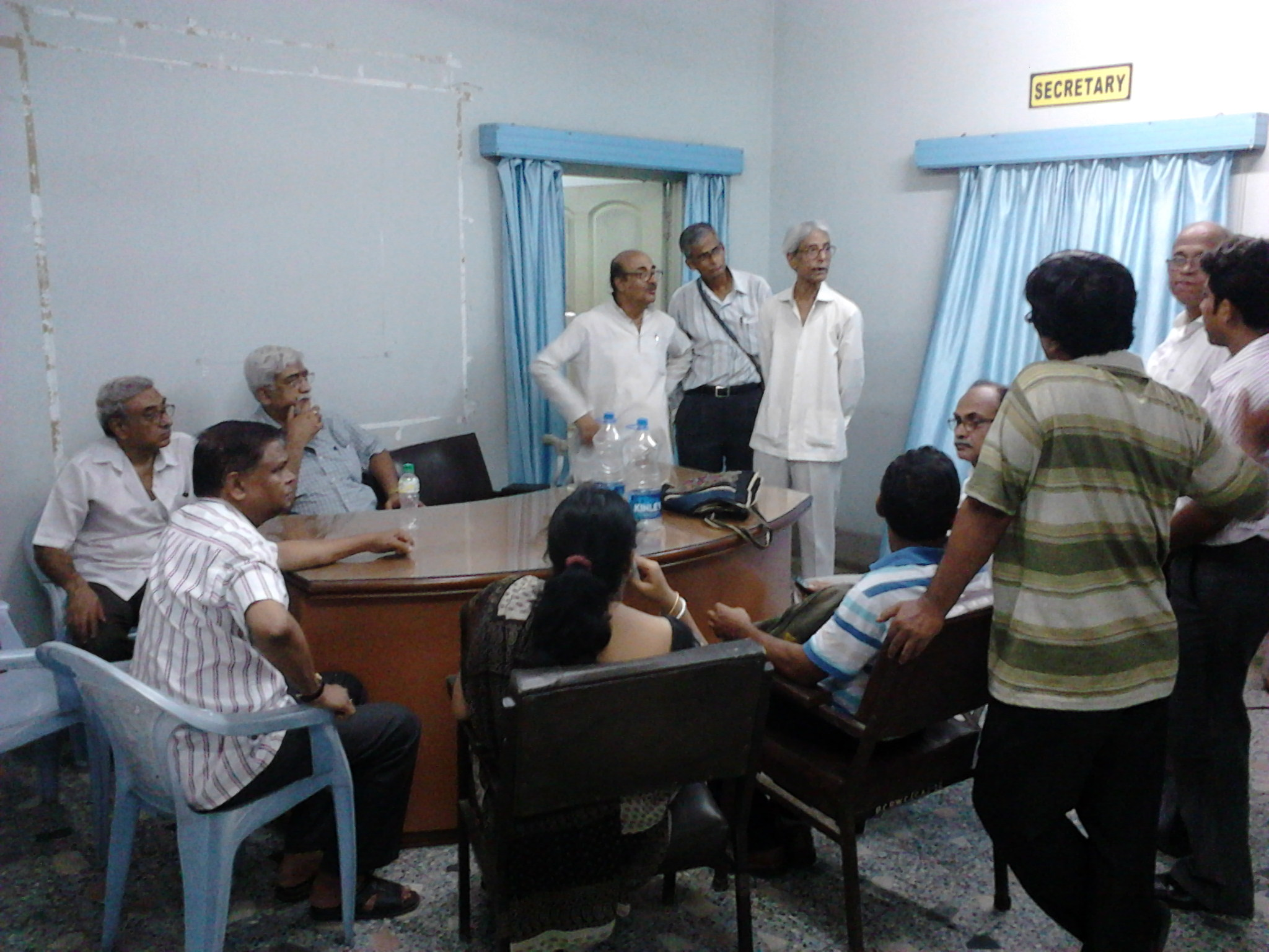 Several meetings held by the senior persons of Photographic Association of Dum Dum (PAD) and the hospital personnel on 16th May, 2011 for the health status of Benu Sen as he was transferred to the Intensive Care Unit (ICU) of Barasat Cancer Research & Welfare Centre, complaining seriously chest infection leading to deteriorate his health conditions.